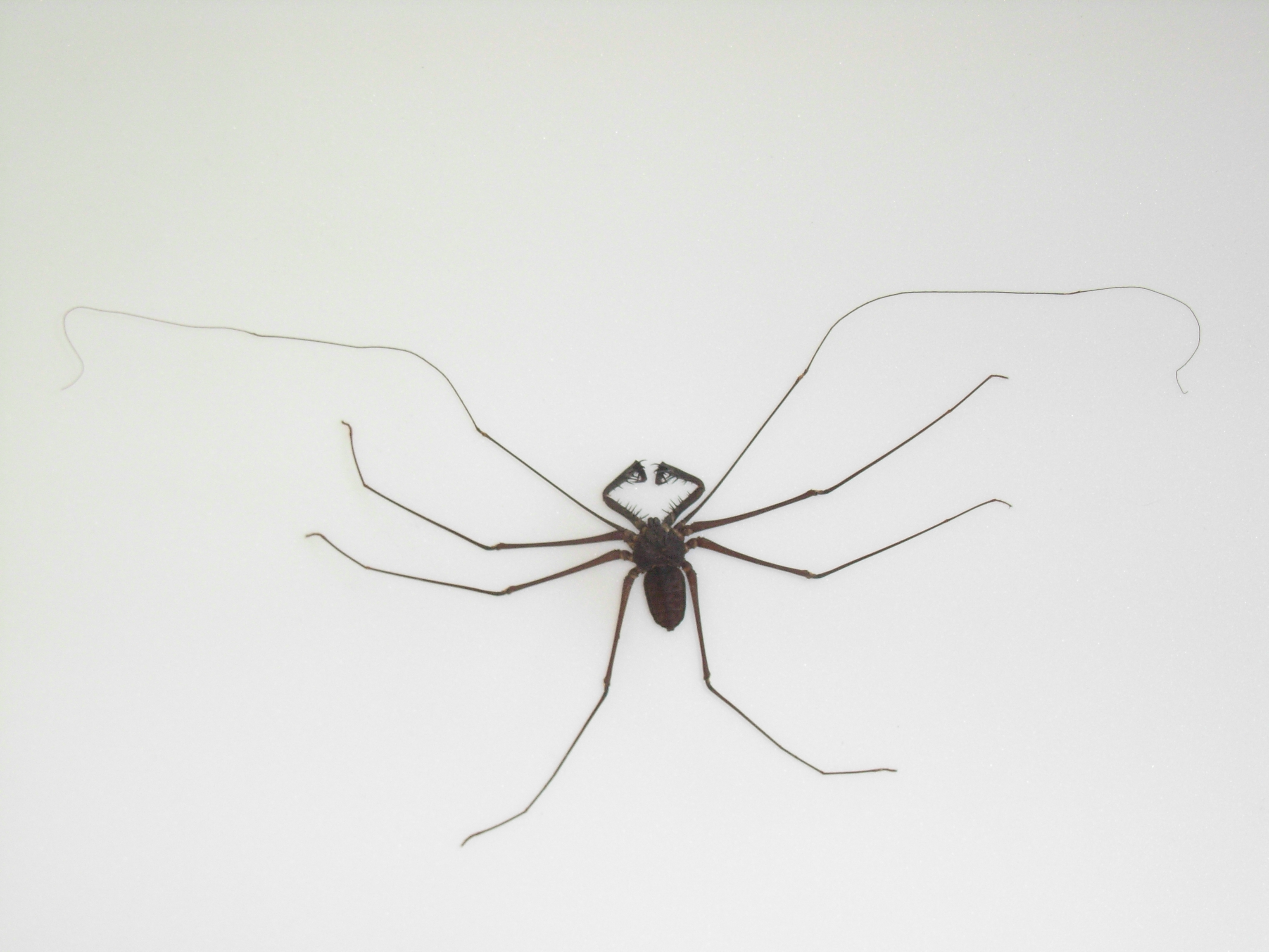 Amblypyge sp Togo Ex coll. Felix Stumpe